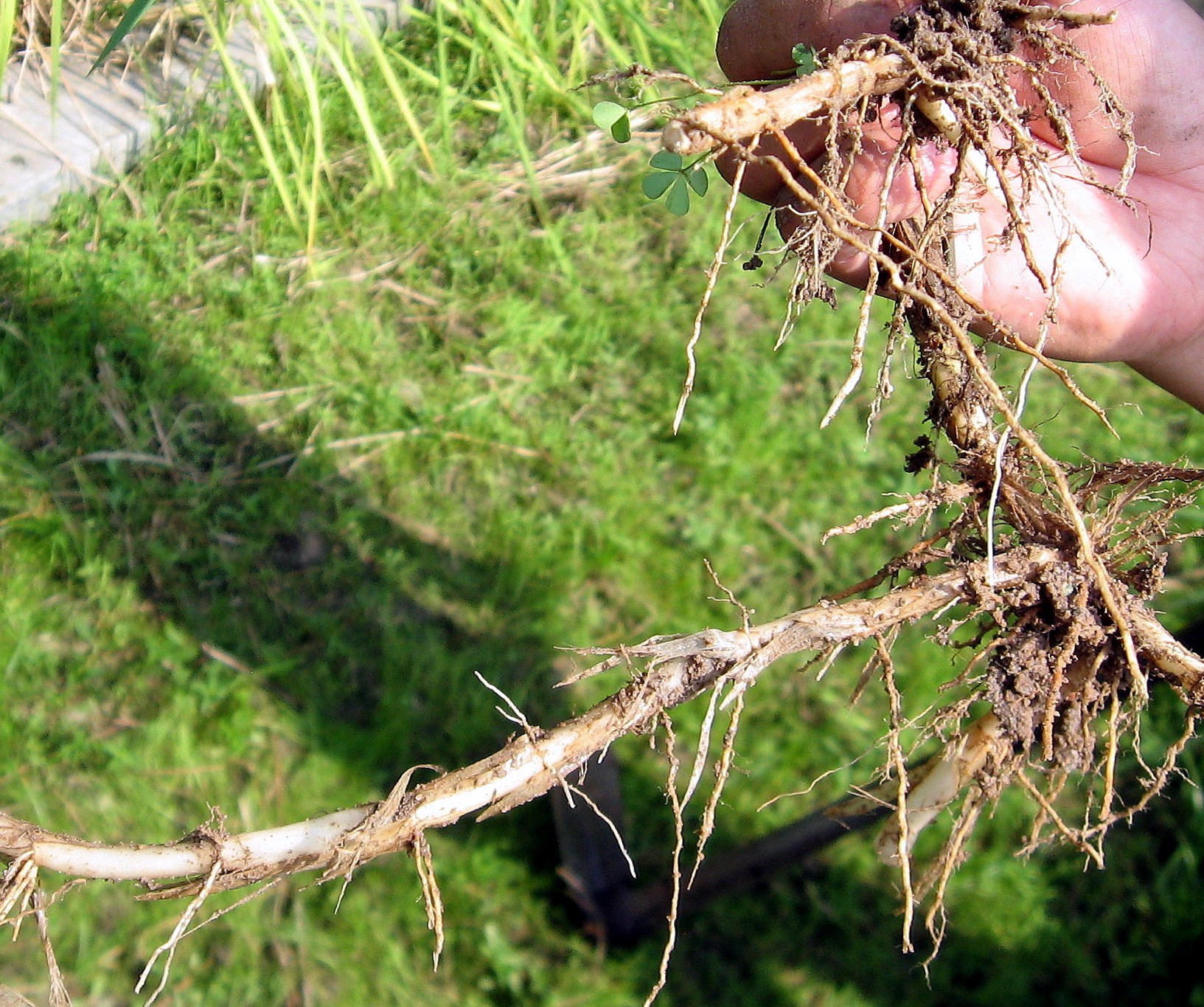 A piece of the rhizome system of an Oryza longistaminata plant. This plant was one parent of a hybrid with Oryza sativa. This perennial plant, its perennial hybrid offspring and the progeny of the hybrid (both perennials and annuals) are part of a rice breeding program by the Yunnan Academy of Agricultural Sciences. Location: Experiment station near Sanya, Hainan Province, PRC.